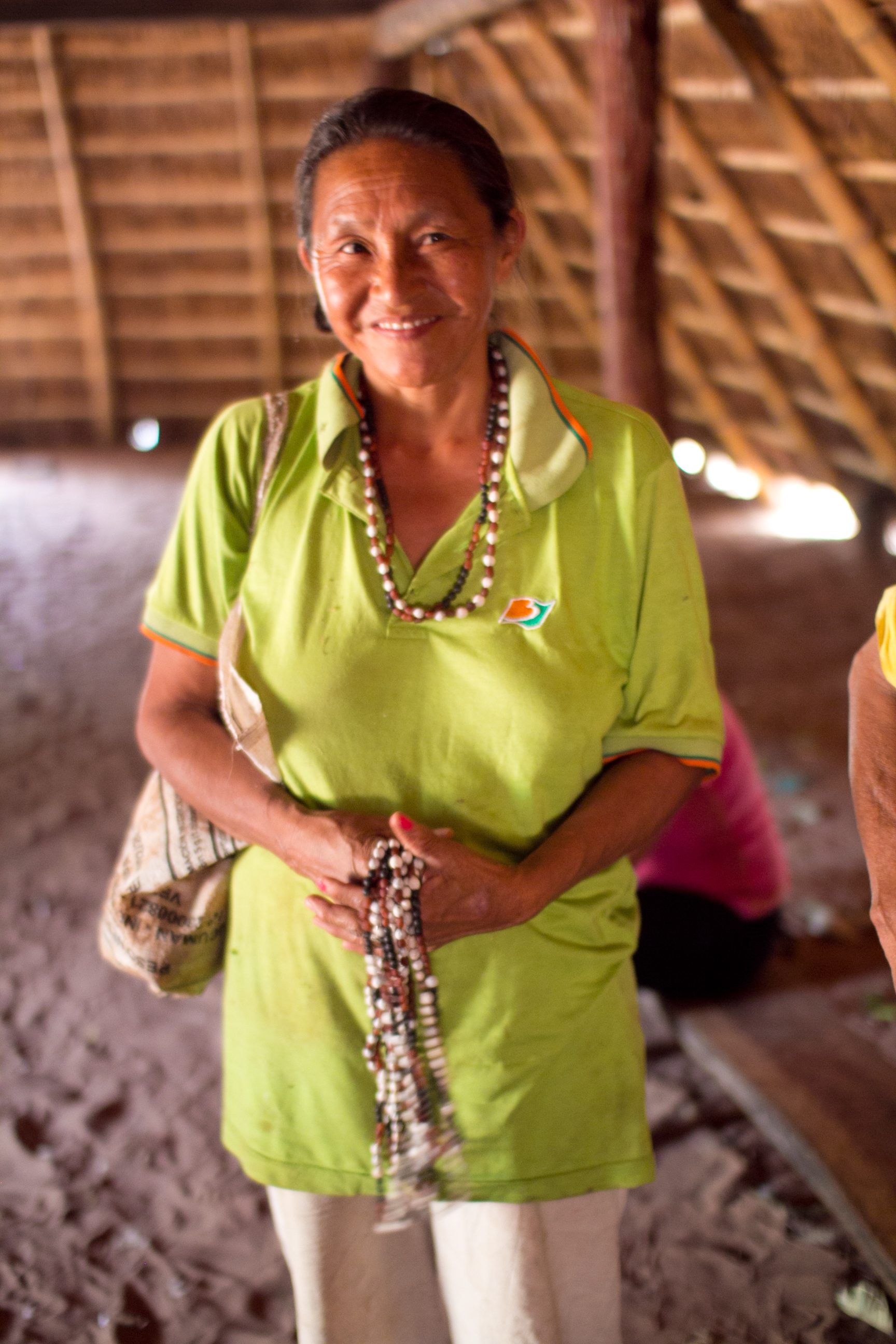 Ña Silvia, A spiritual leader of Pai Tavytera Indians in Amambay, inside traditional guarani hut